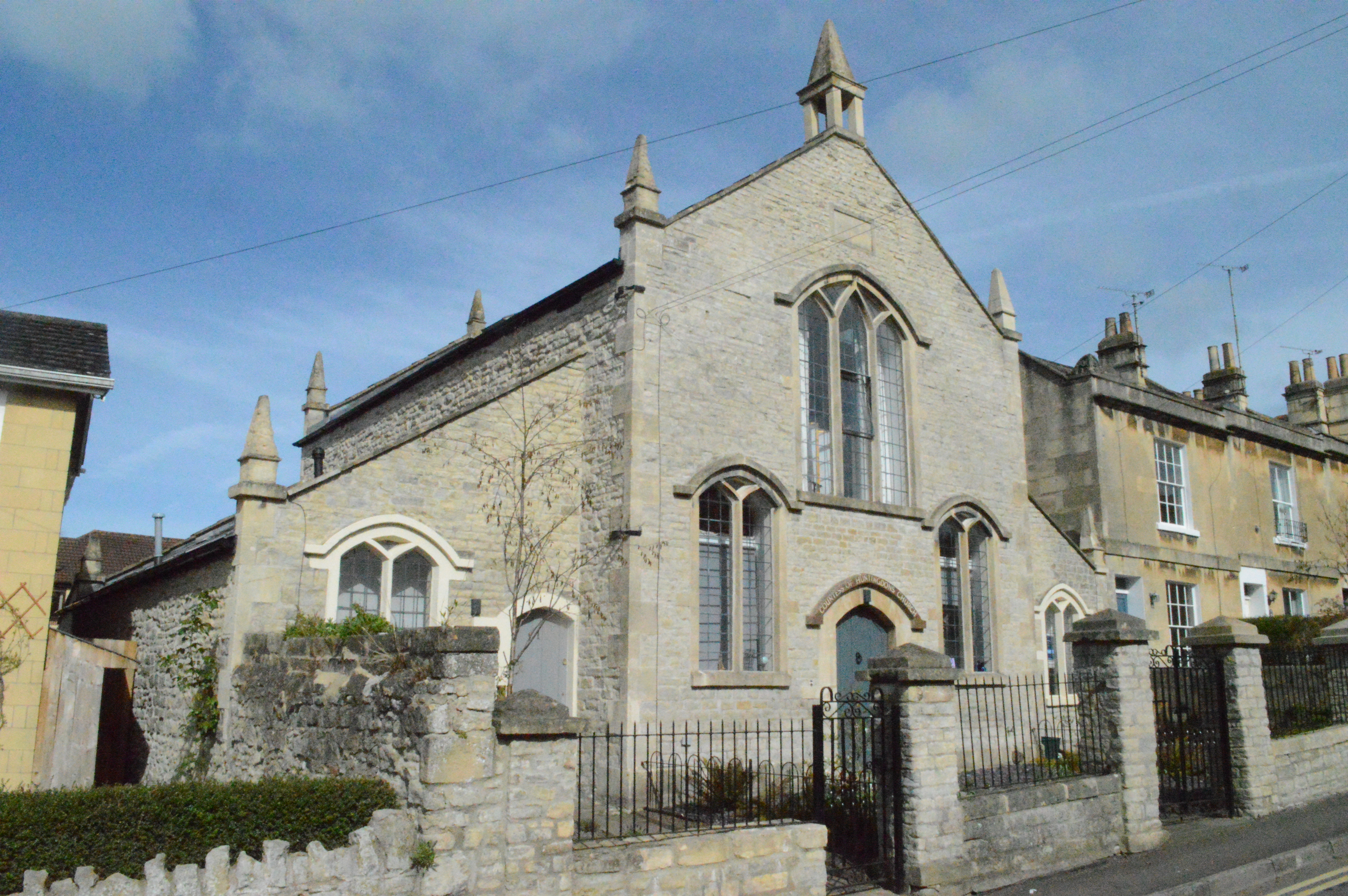 Countess of Huntingdon's Chapel, Weston, Bath. Built 1853, now converted into accommodation.[1]